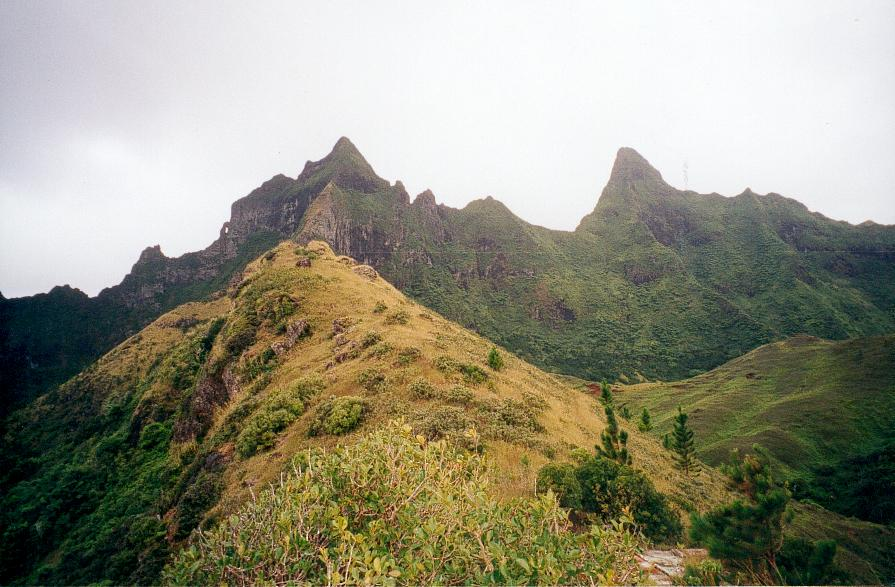 Tautautu and Pukumaru mounts, Rapa, Austral Islands, French Polynesia